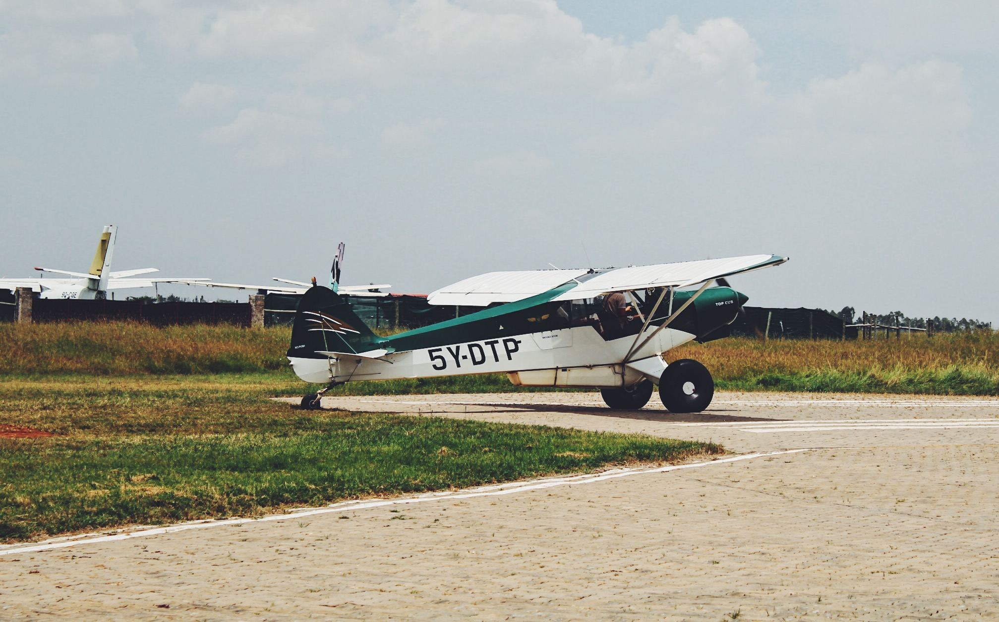 Aircrafts at Orly Airpark Kenya This is an image with the theme "Africa on the Move or Transport" from: Kenya